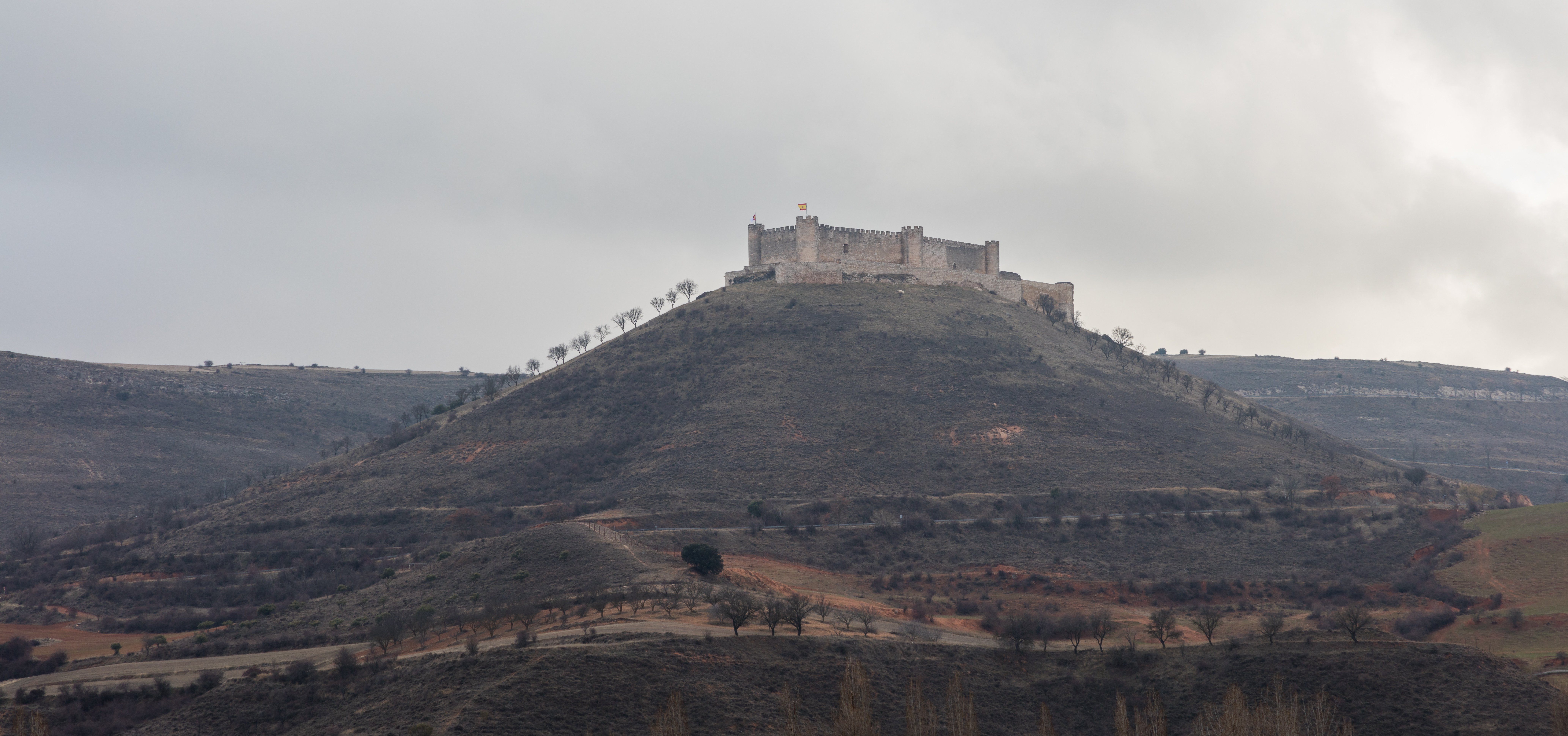 Castillo, Jadraque, Guadalajara, Spain